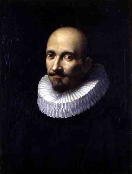 Self-portrait of Marcello Provenzale (1575–1639)